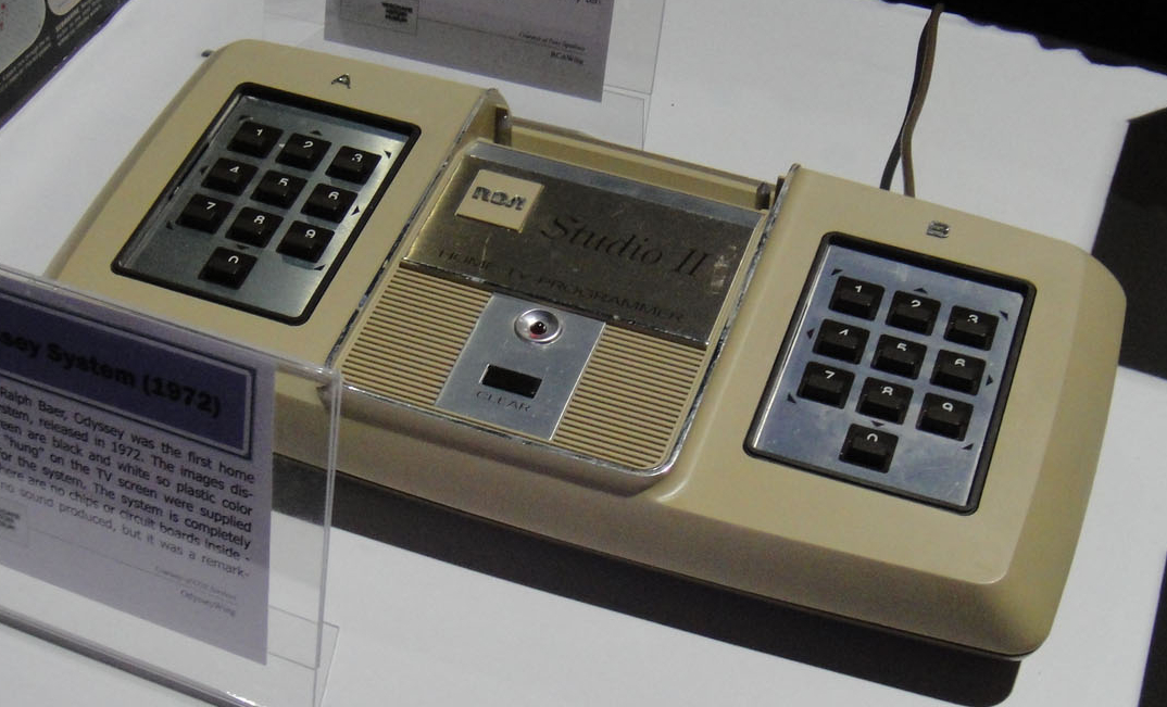 RCA Studio Game II game console of 1977